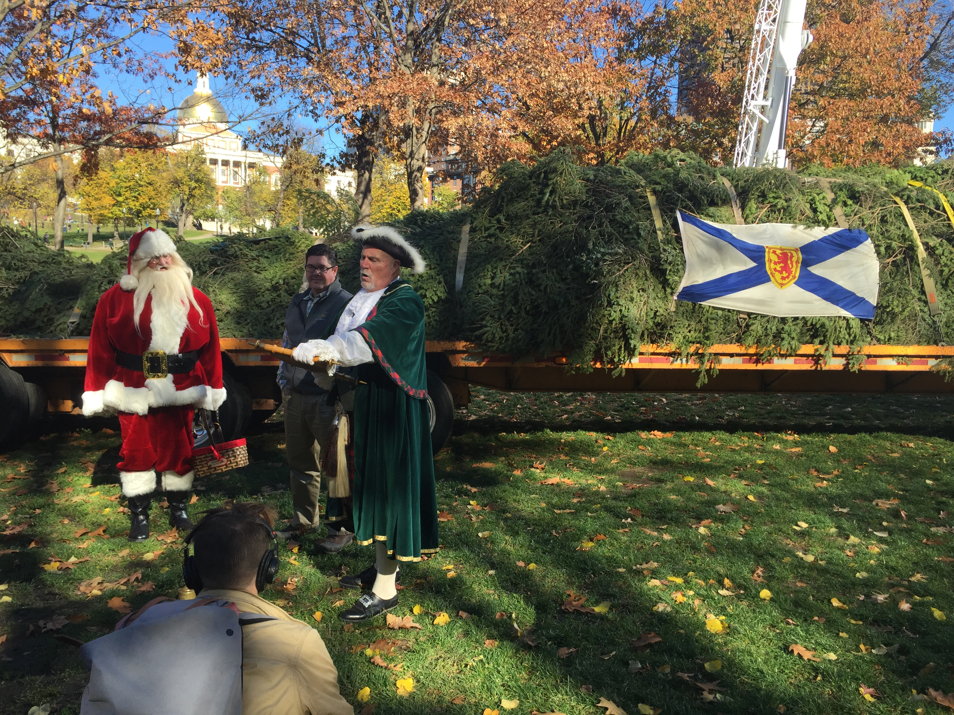 A Town Crier and Santa Claus welcome the Boston Christmas Tree from Ainslie Glen, Cape Breton Island on the Boston Common.